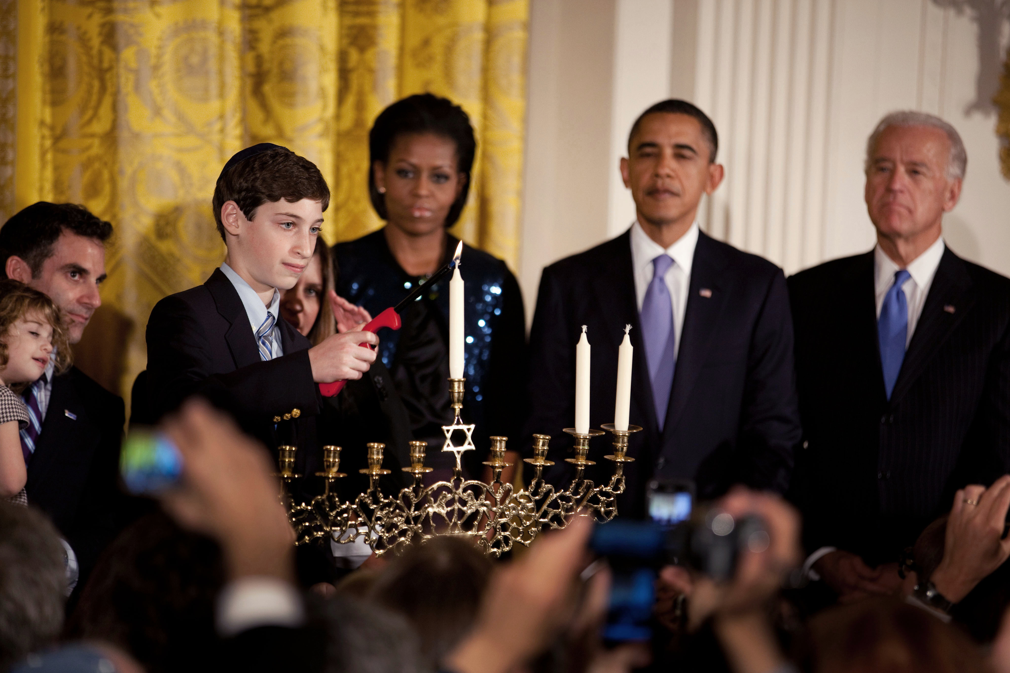 Ben Retik lights the Menorah as President Barack Obama, Vice President Joe Biden and First Lady Michelle Obama take part in the Hanukkah Candle Lighting ceremony in the East Room of the White House, December 2, 2010.